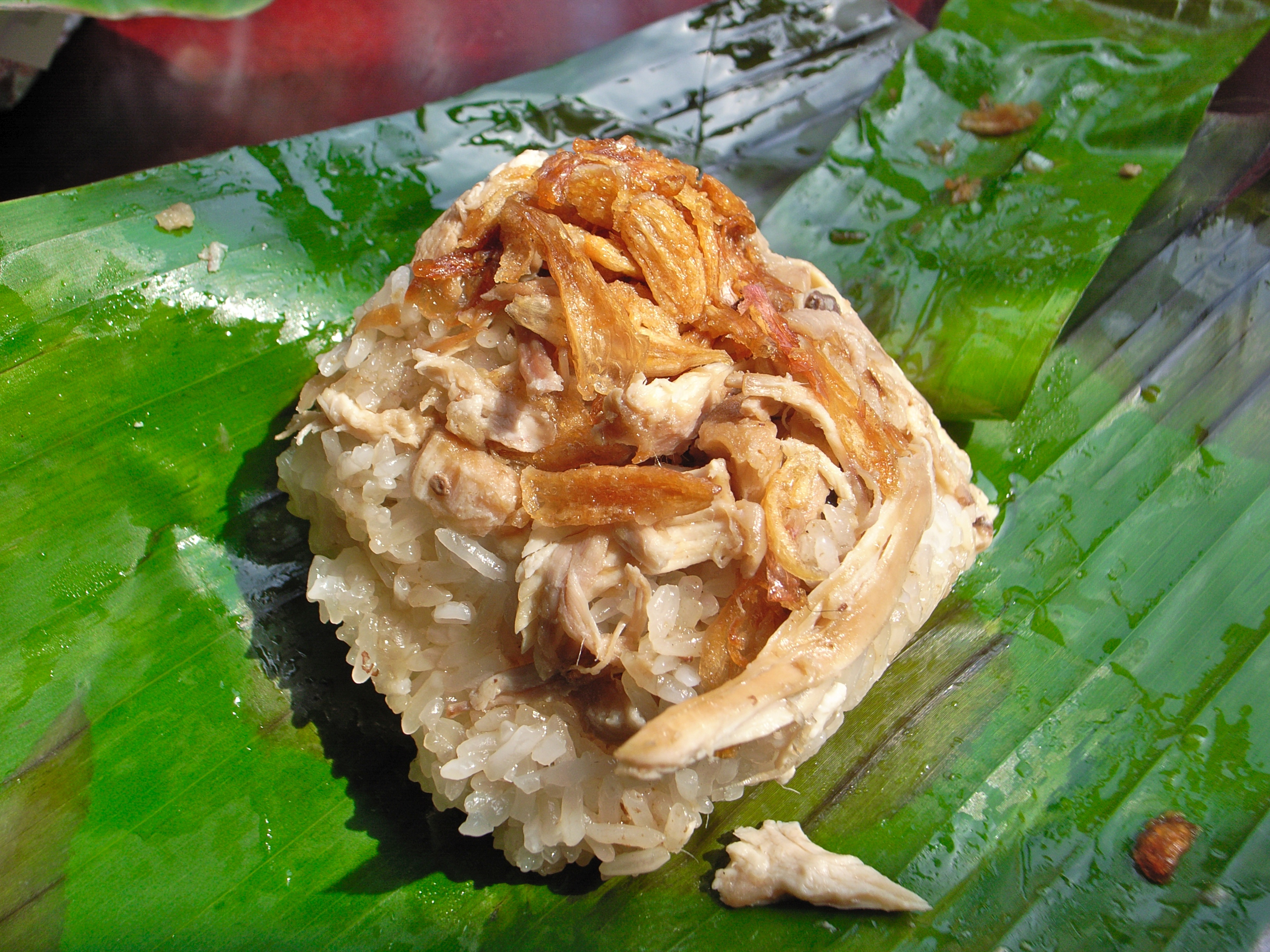 Glutinous rice with chicken from Hồ Chí Minh City